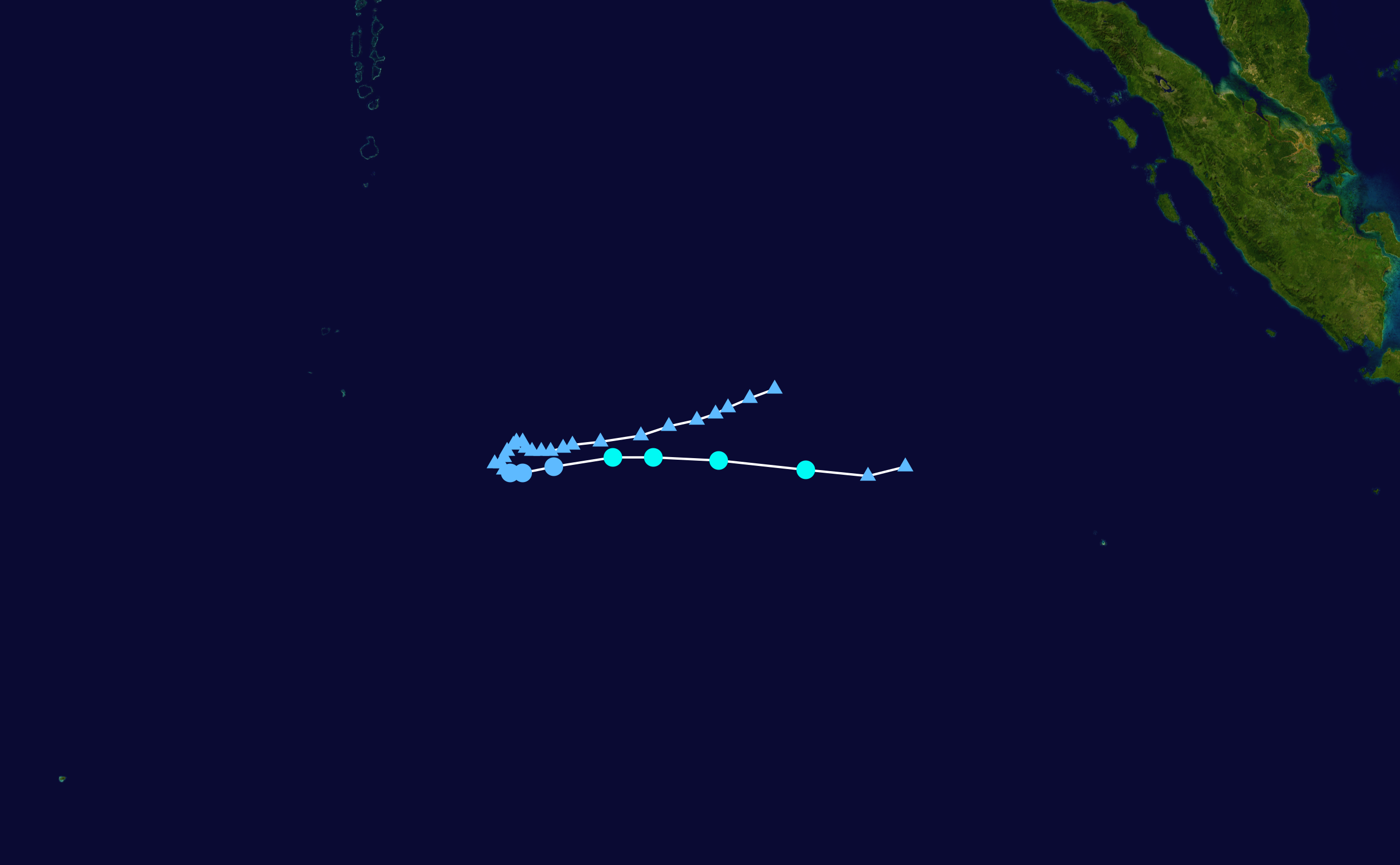 Track map of Moderate Tropical Storm Bernard of the 2008-09 South West Indian Ocean cyclone season. The points show the location of the storm at 6-hour intervals. The colour represents the storm's maximum sustained wind speeds as classified in the Saffir–Simpson scale (see below), and the shape of the data points represent the nature of the storm, according to the legend below. Saffir–Simpson scale Tropical depression≤38 mph≤62 km/h Category 3111–129 mph178–208 km/h Tropical storm39–73 mph63–118 km/h Category 4130–156 mph209–251 km/h Category 174–95 mph119–153 km/h Category 5≥157 mph≥252 km/h Category 296–110 mph154–177 km/h Unknown Storm type Tropical cyclone Subtropical cyclone Extratropical cyclone / Remnant low / Tropical disturbance / Monsoon depression